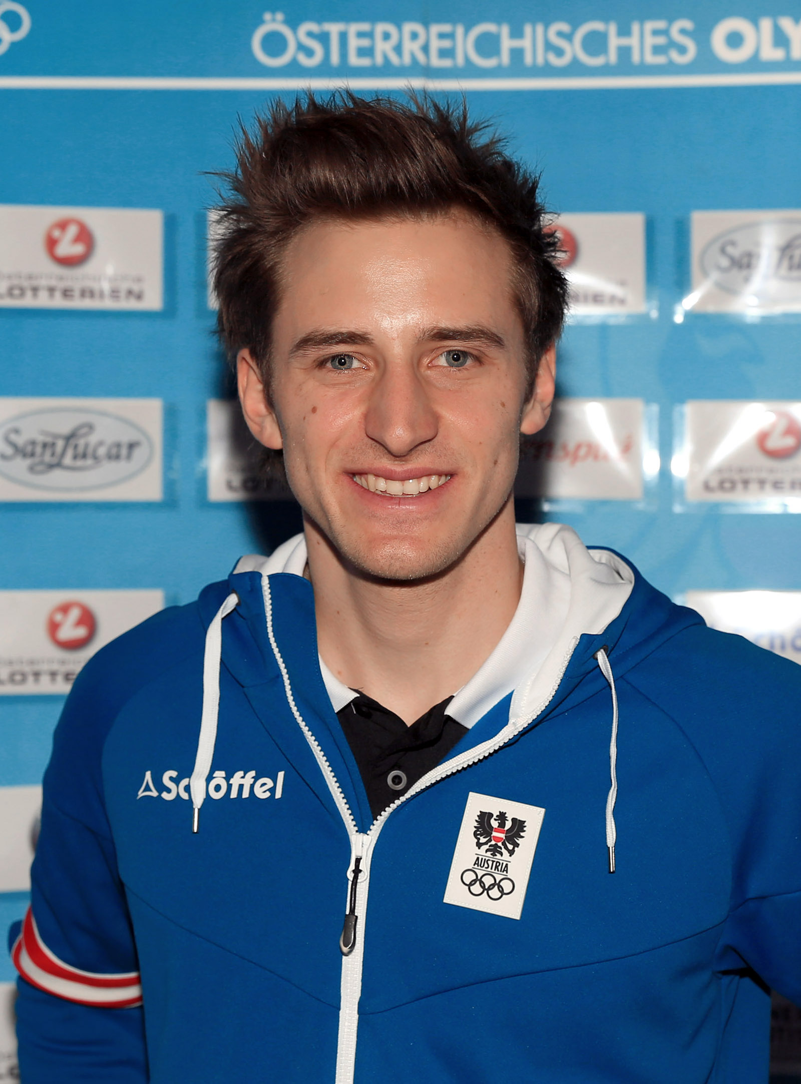 Matthias Mayer (alpine skiing) at the outfitting of the Austrian team for the 2014 Winter Olympics, Hotel Marriott in Vienna, Austria, 28 January 2014